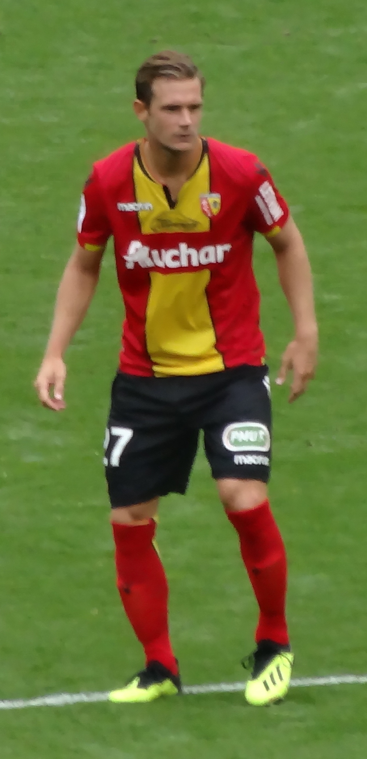 Guillaume Gillet (RC Lens)